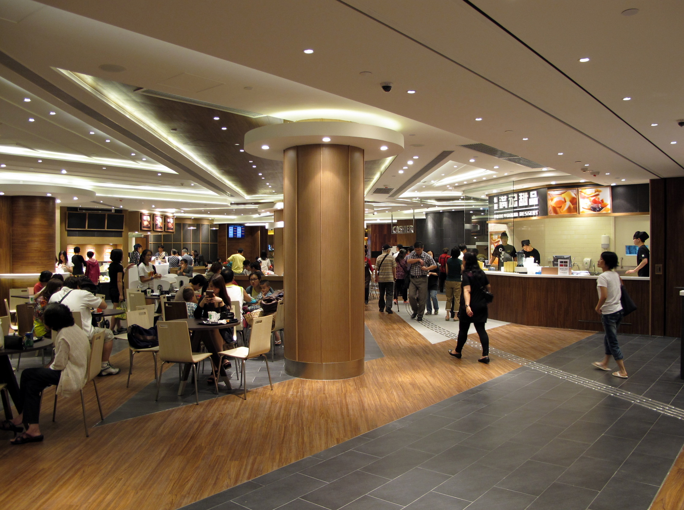 cookedDeli by citysuper in TKO The Edge